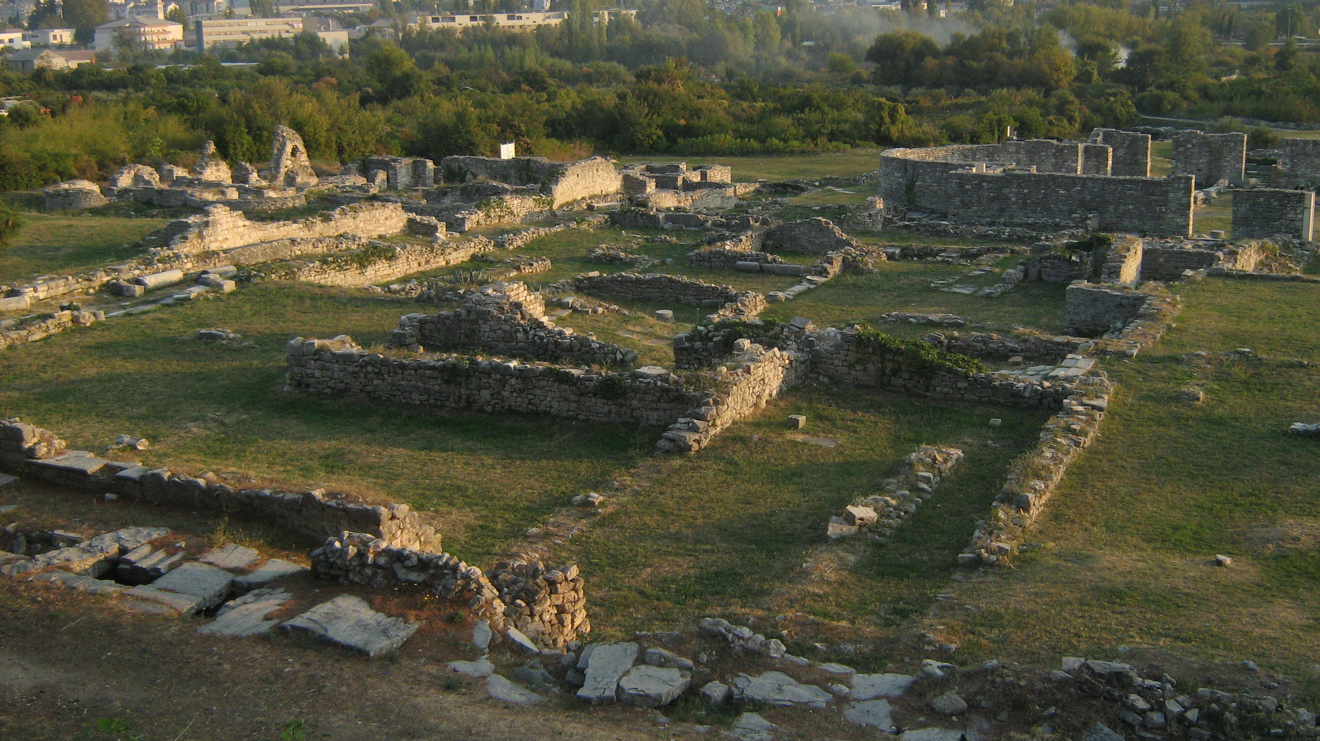 Ruins of the ancient Salonitan Episcopal centre and Archbishop's baths. These buildings were built in 5th century on foundations of an earlier church.